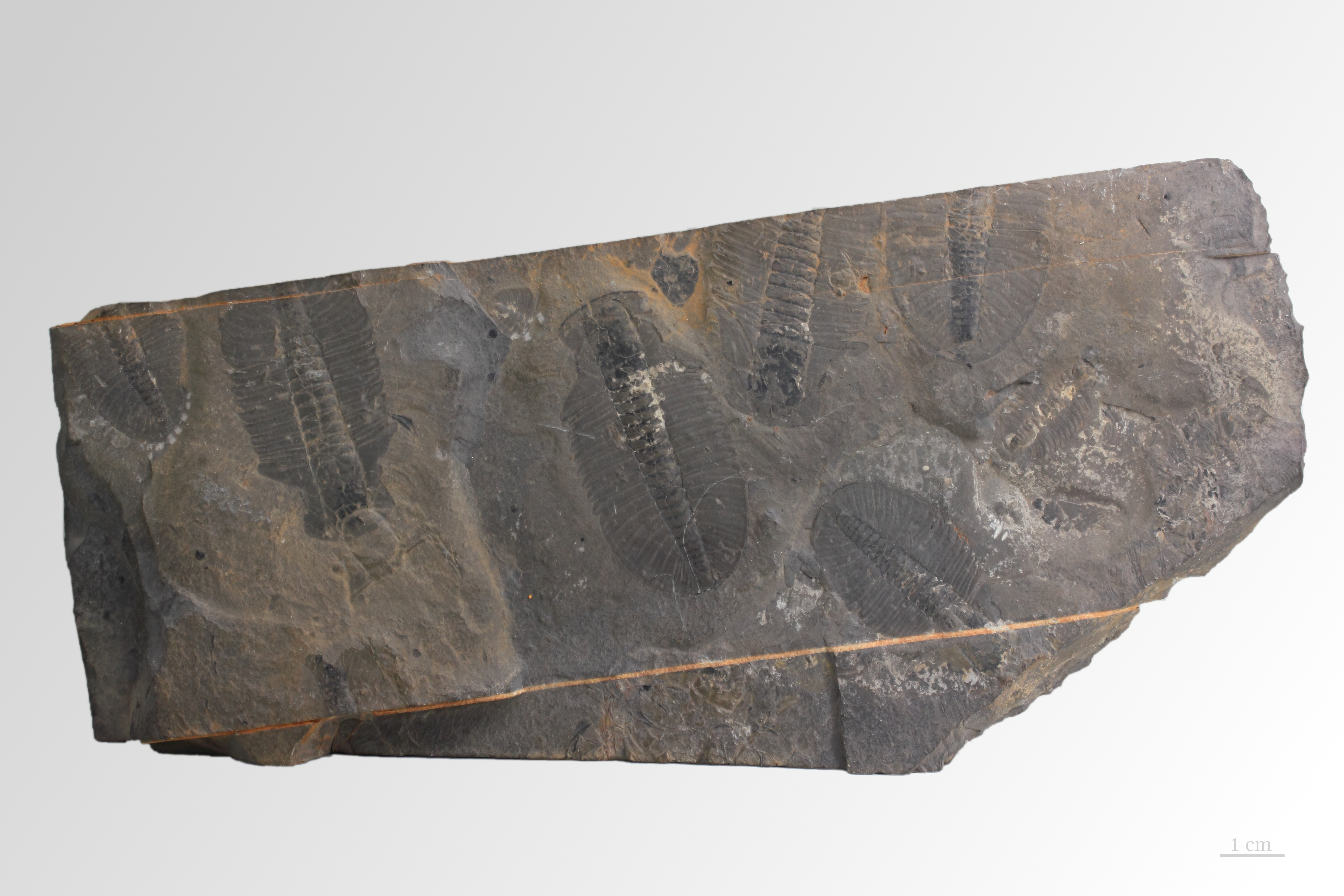 Ogygopsis canadense - Cambrian - Mount Stephen, Bristish Columbia